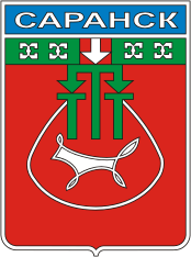 Saransk (Mordovia), coat of arms (1967)